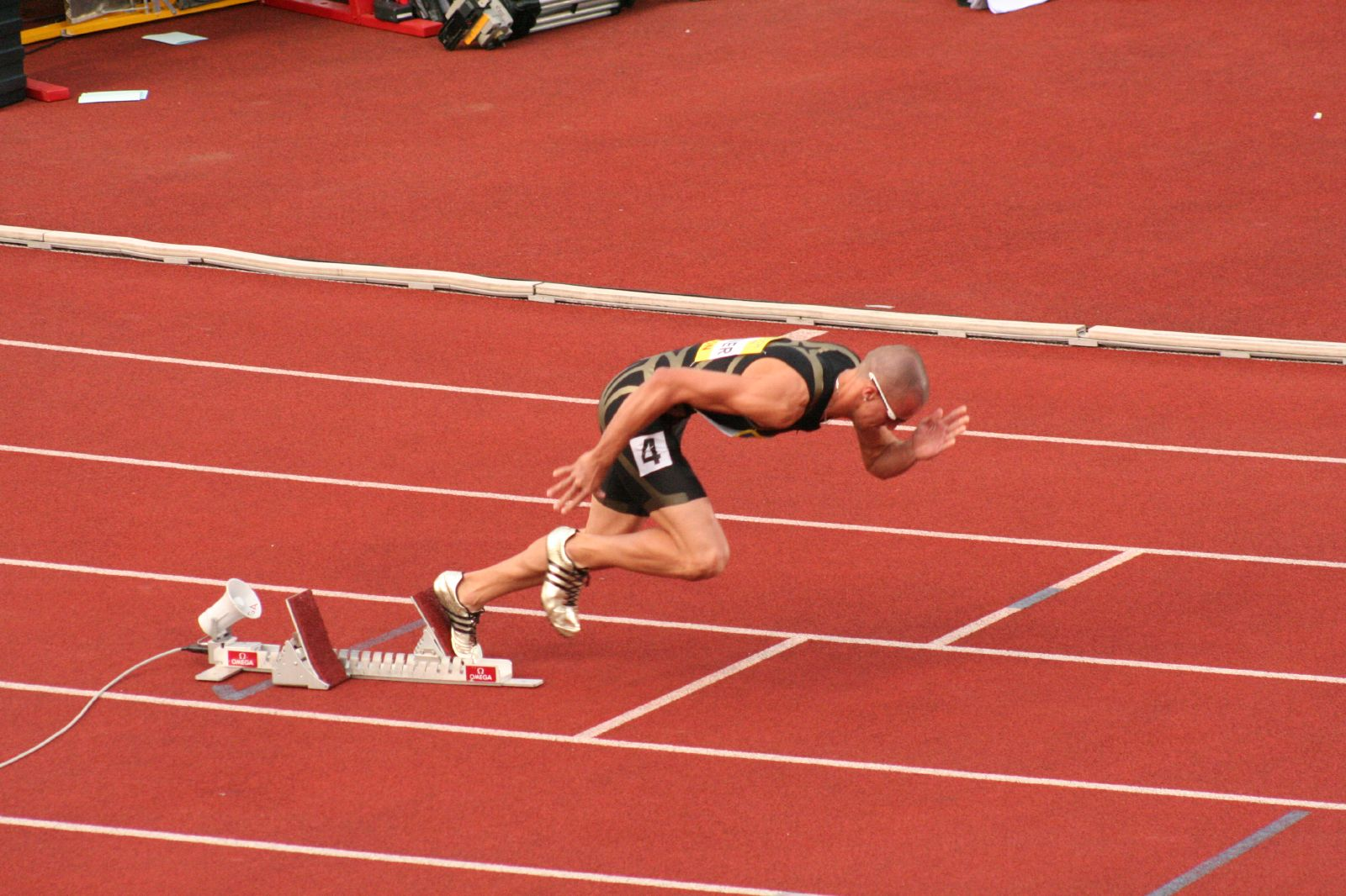 Jeremy Wariner London Grand Prix, August 2007 Crystal Palace